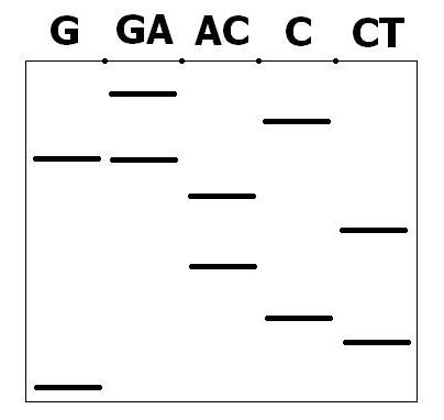 Electrophoresis of short sequences created by Maxam-Gilbert sequencing technique. The primary sequence, GTCATAGCA, is read from the bottom of the polyacrylamide gel